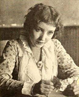 Still from the American film Cupid Forecloses (1919) with Bessie Love, on page 745 of the July 19, 1919 Motion Picture News'